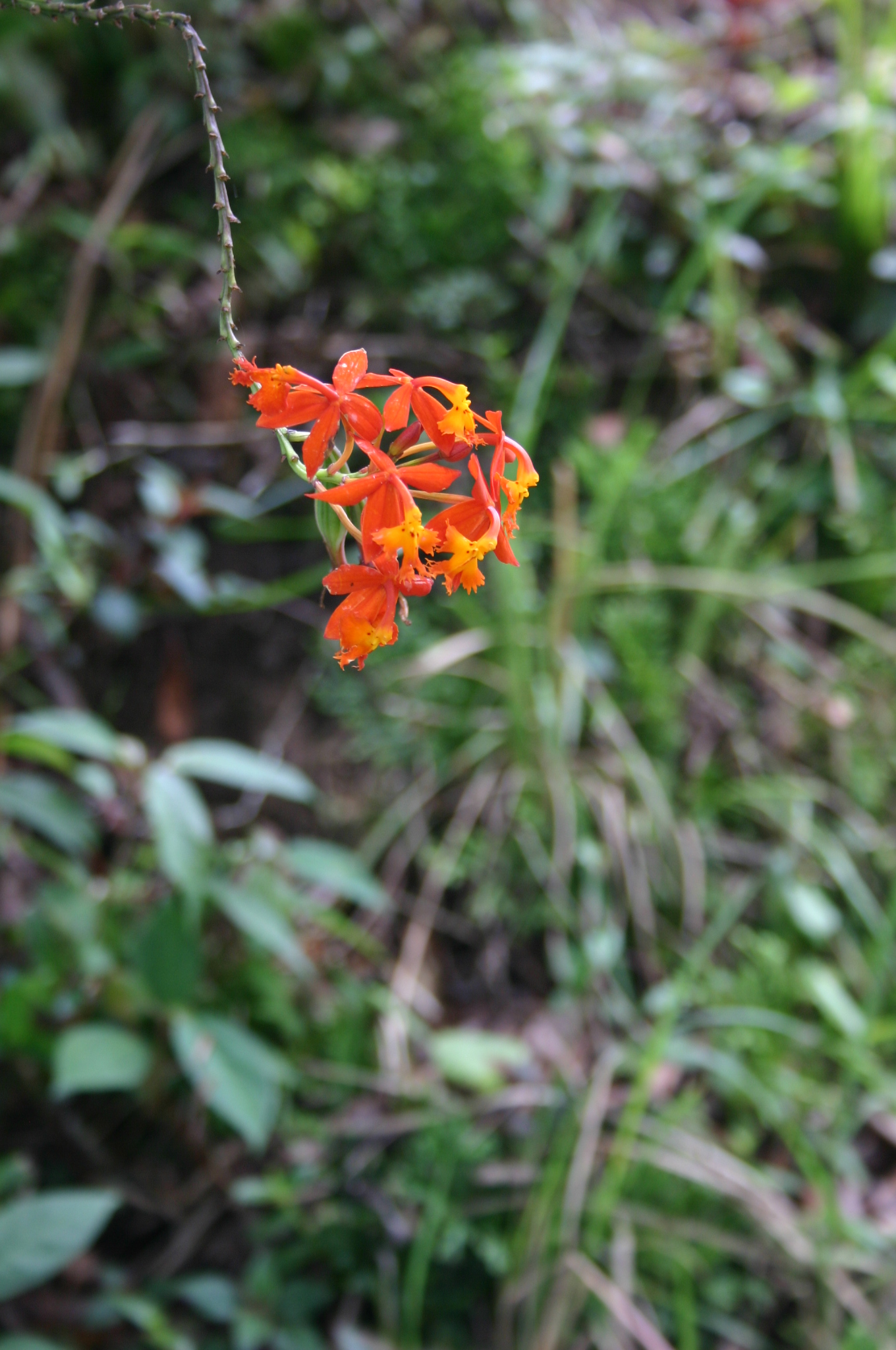 Epidendrum radicans in situ, Tziscao, Chiapas, Mexico from Lucas Renique